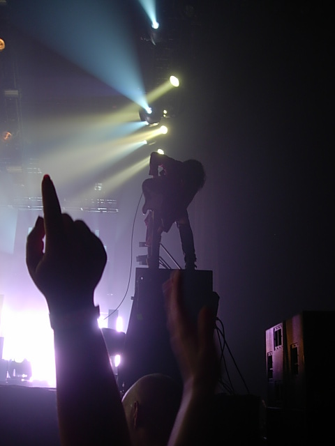 Aaron North standing smashing his guitar while standing on top of a stack of Amplifiers during a Nine Inch Nails performance in Philadephia, PA, at the Wachovia Spectrum.